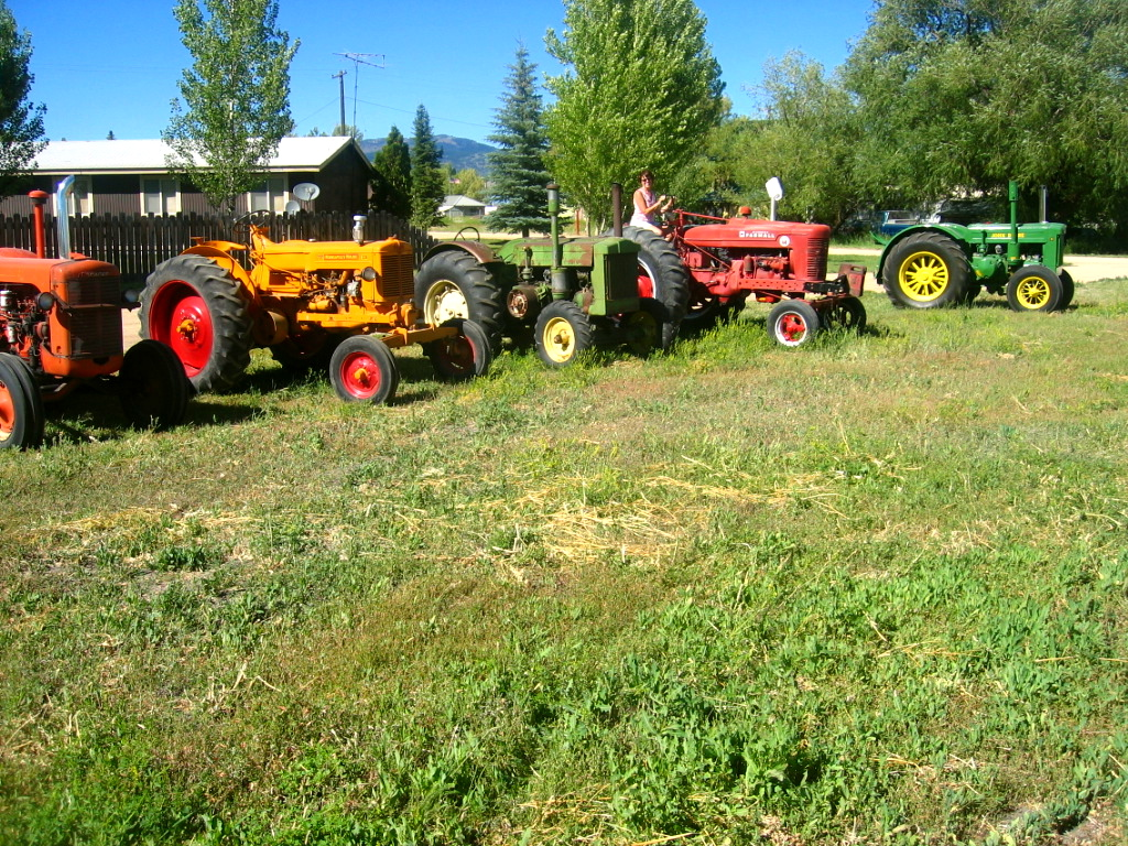 Tractors in Fairfield, Idaho